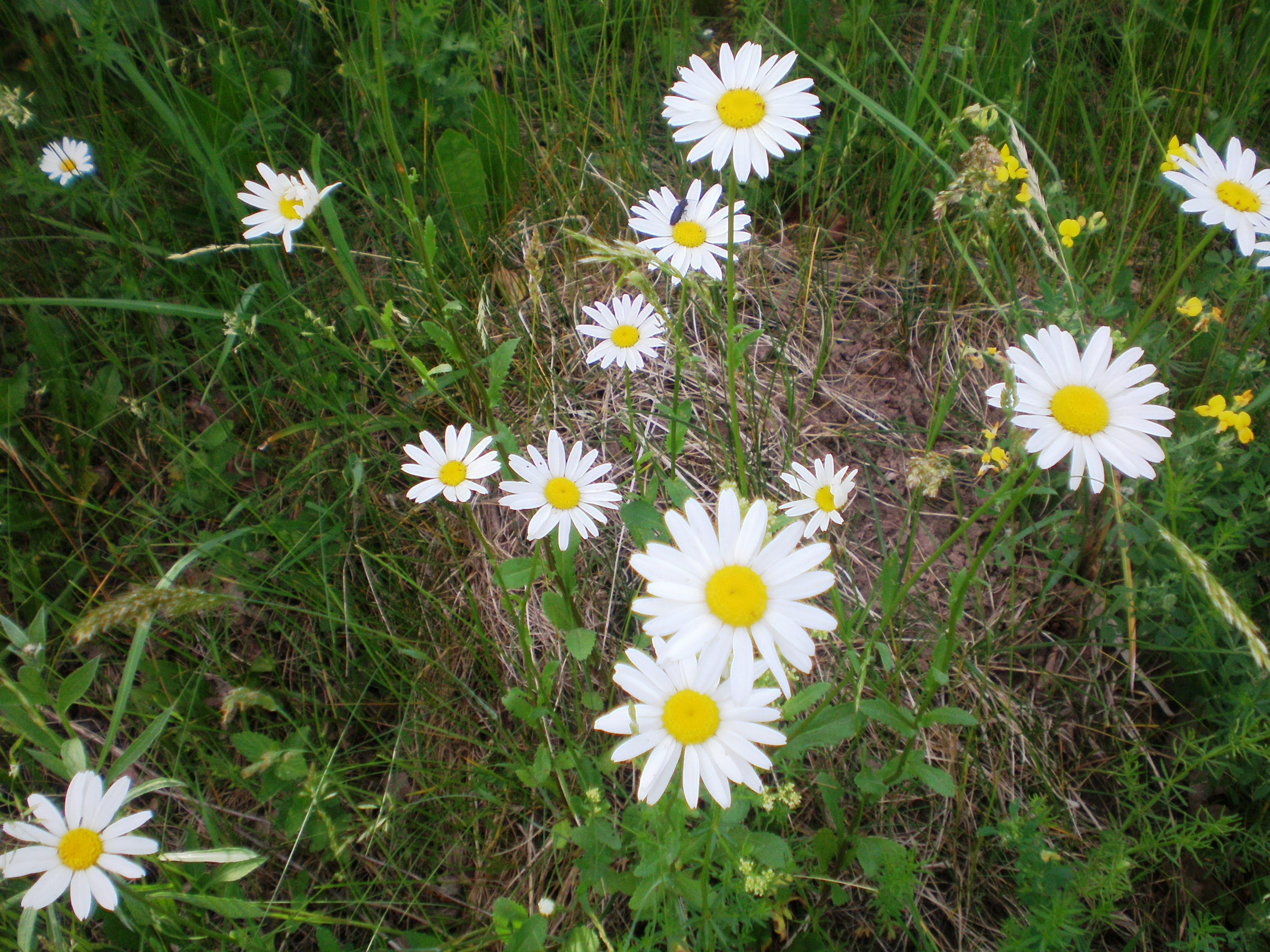 Leucanthemum vulgare